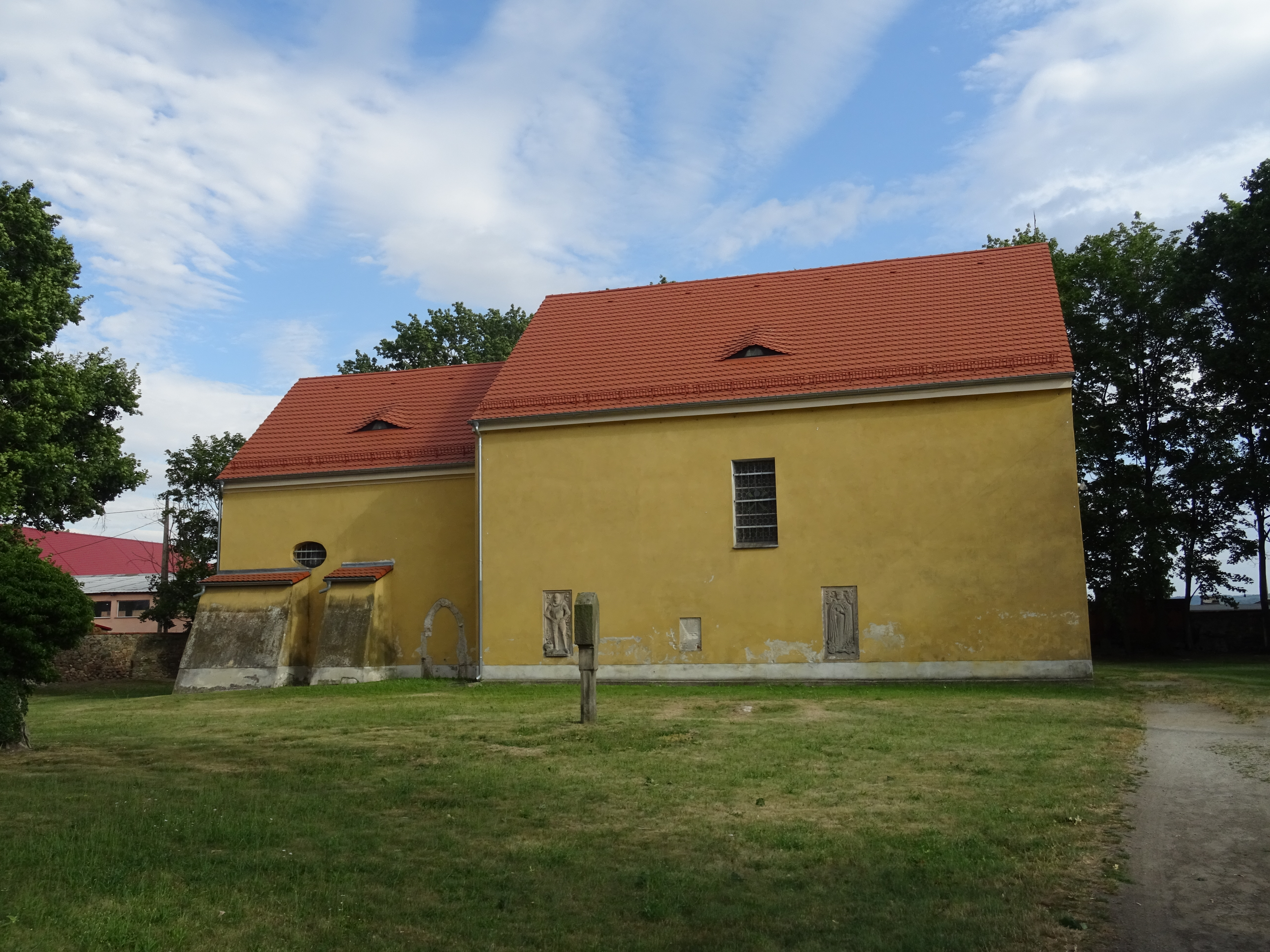 This photograph was created as a part of Wikiexpedition Lower Silesia, a project supported by Wikimedia Poland grant.